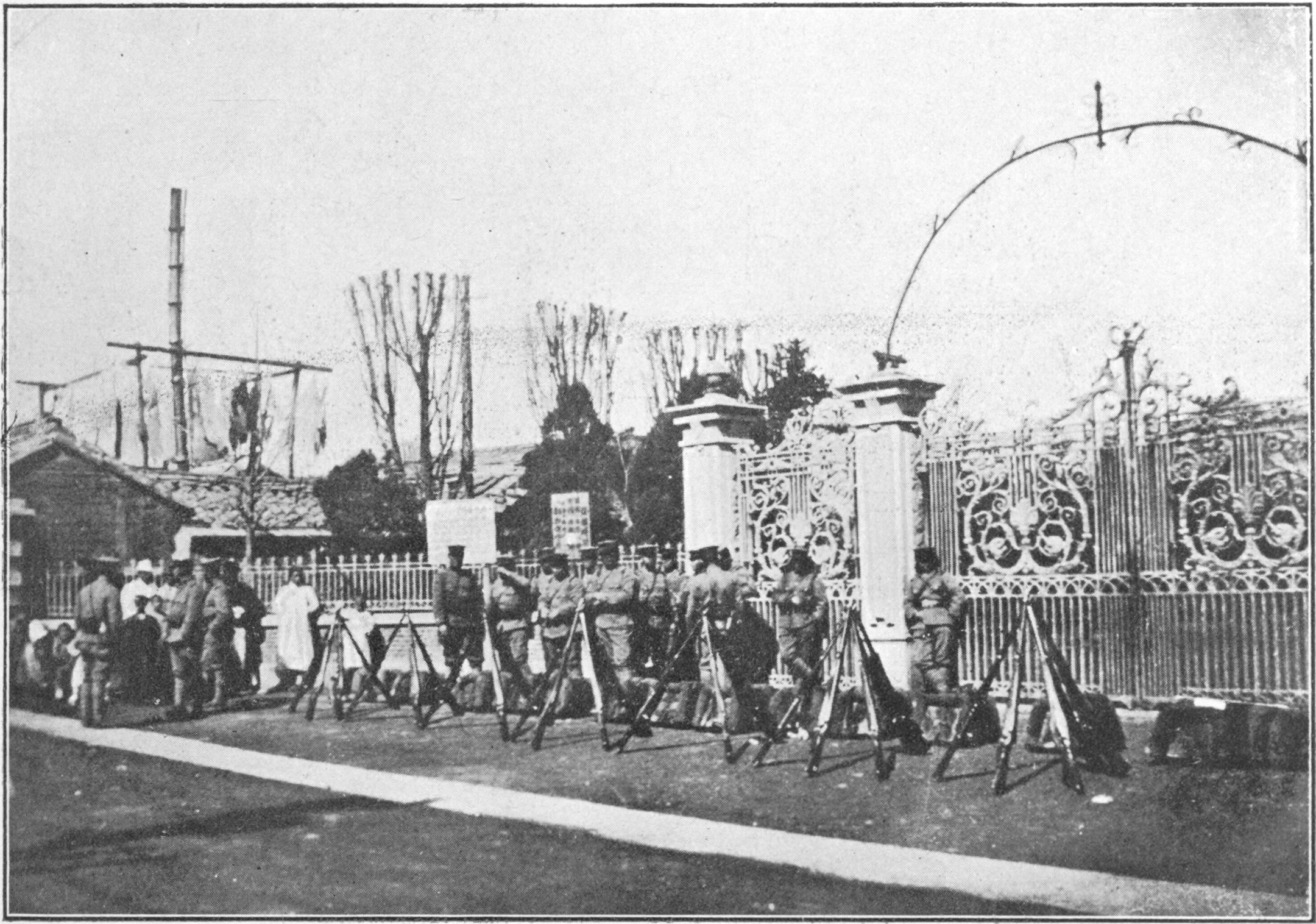 Japanese barricade at the entrance of Pagoda Park in Seoul to prevent the peaceful demonstration.